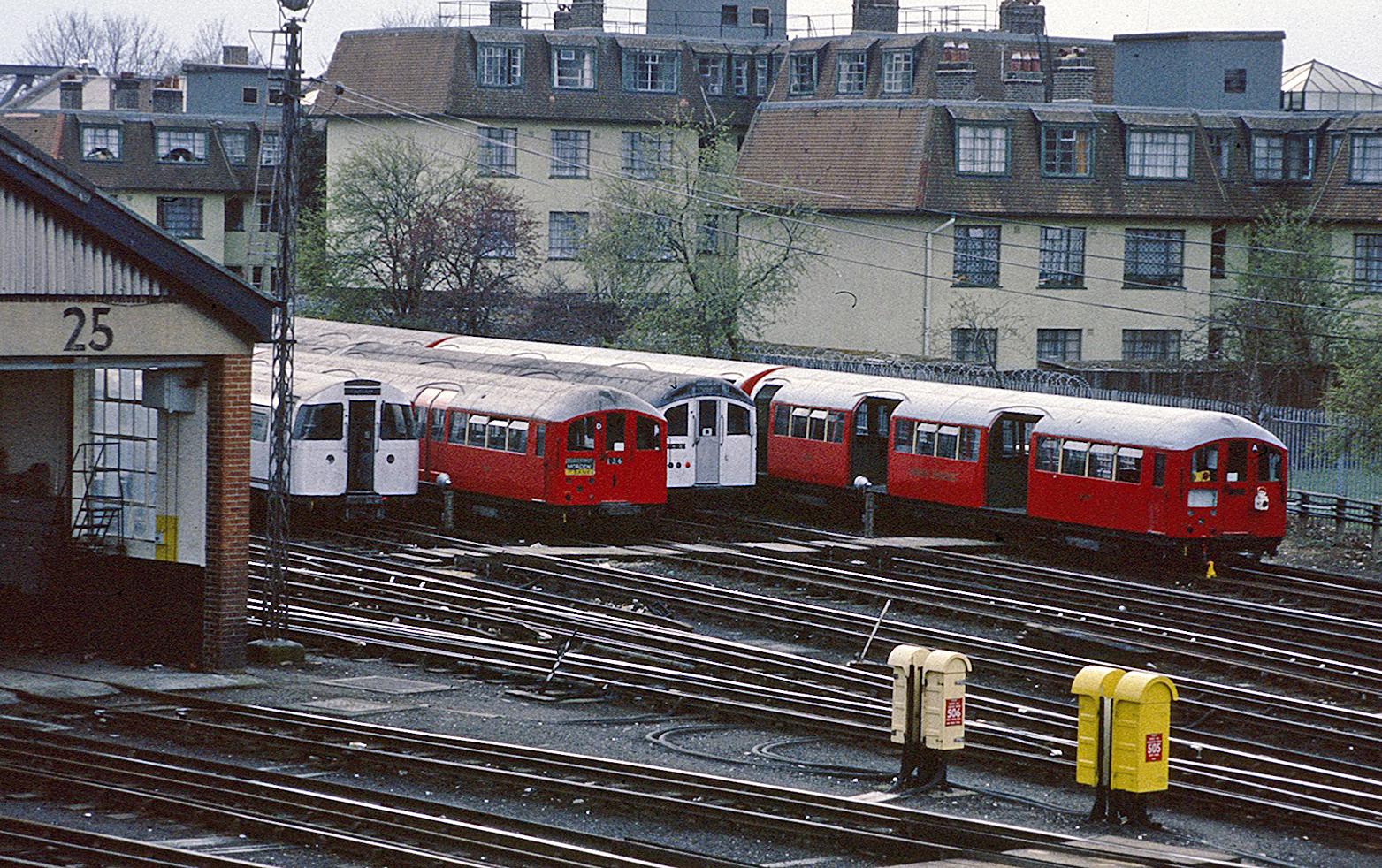 April 1988 1972, 1938 and 1959 Tube Stock